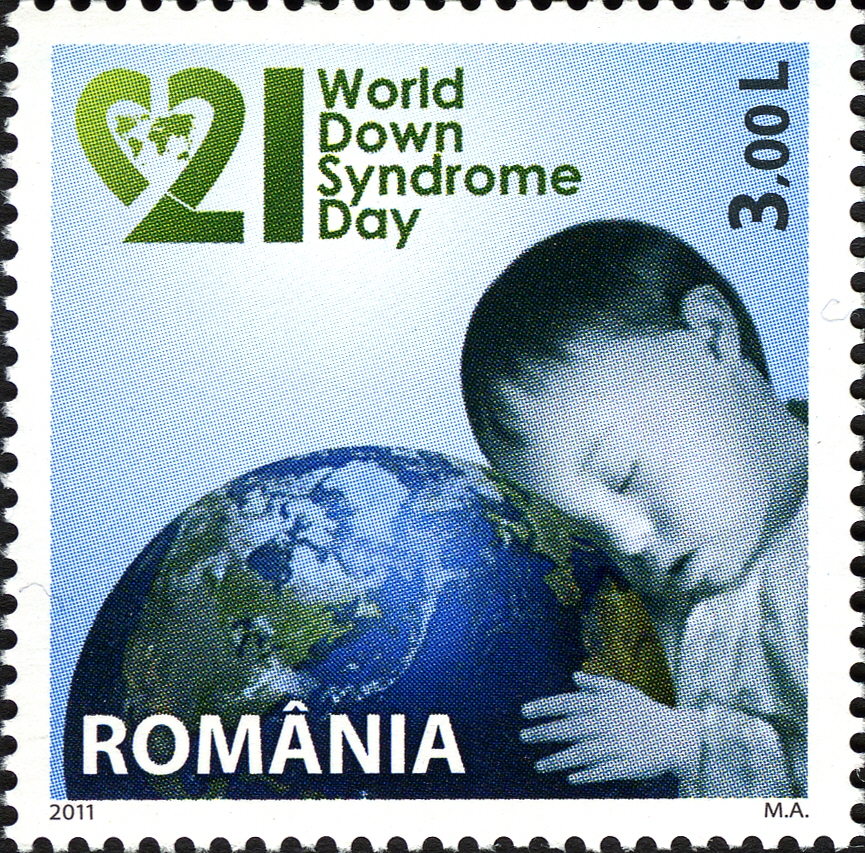 Stamps of Romania, 2011